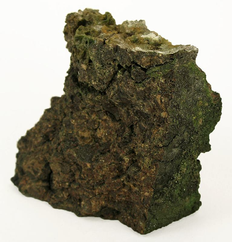 Chromite Locality: Baltimore, Maryland Size: small cabinet, 7.4 x 7.0 x 5.3 cm Chromite I am not quite sure what this is, but it is labelled "Green oxide of Chromium" from Baltimore, and comes with a presentation label apparently from a Doctor in Baltimore who presented the sample to the Academy.